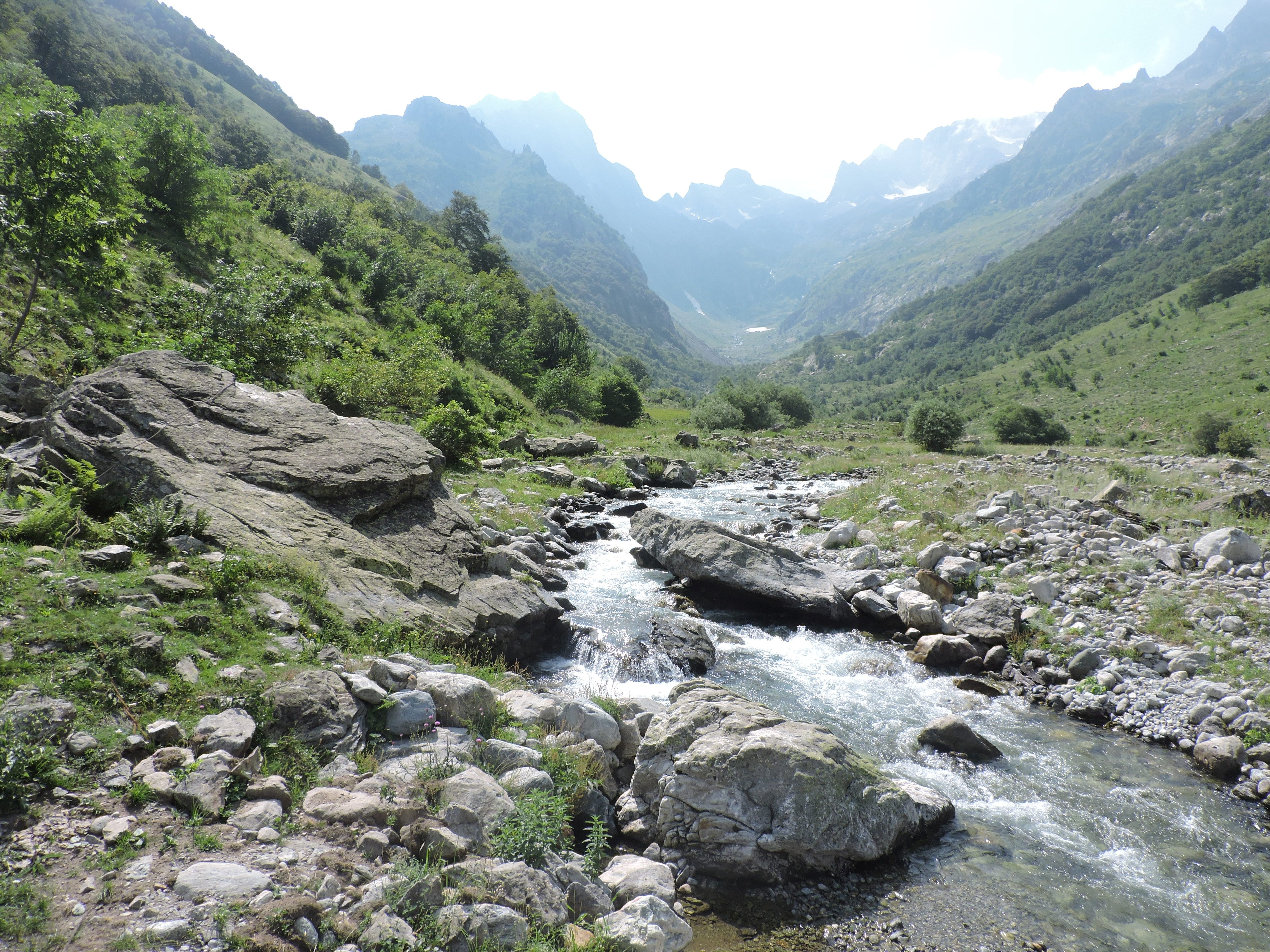 Gesso di Moncolombo at Pian Razur (Maritime Alps, Italy)